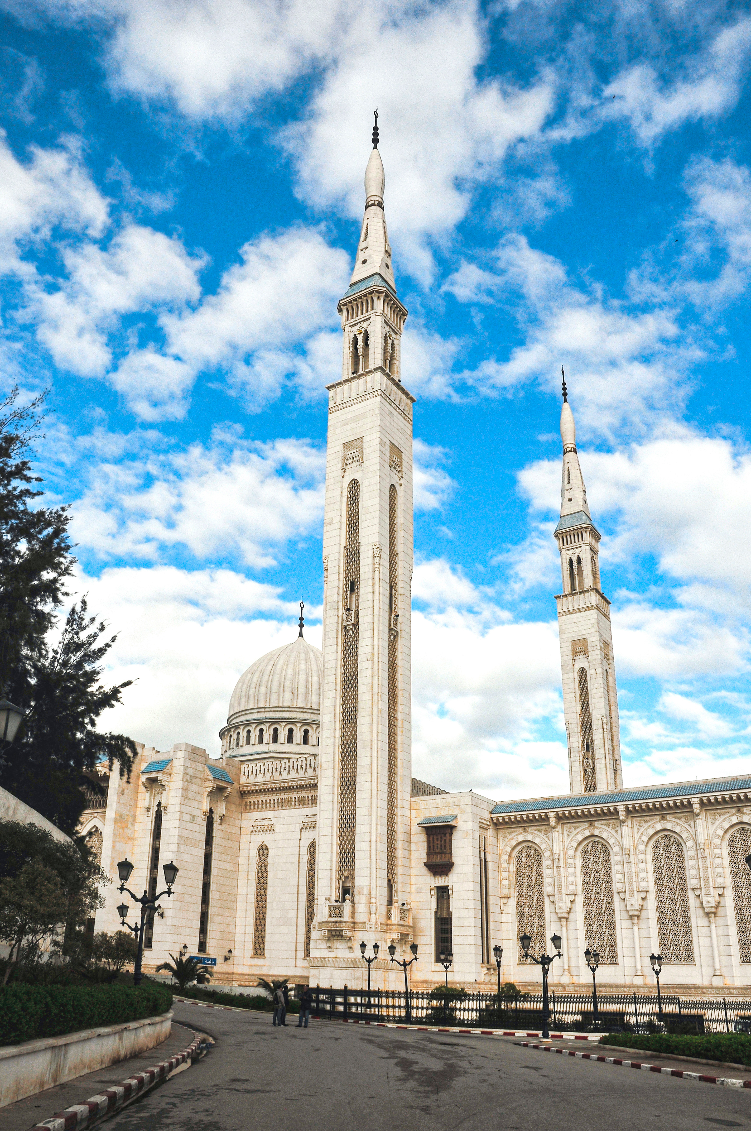 Emir Abdelkader Mosque. Constantine, Algeria